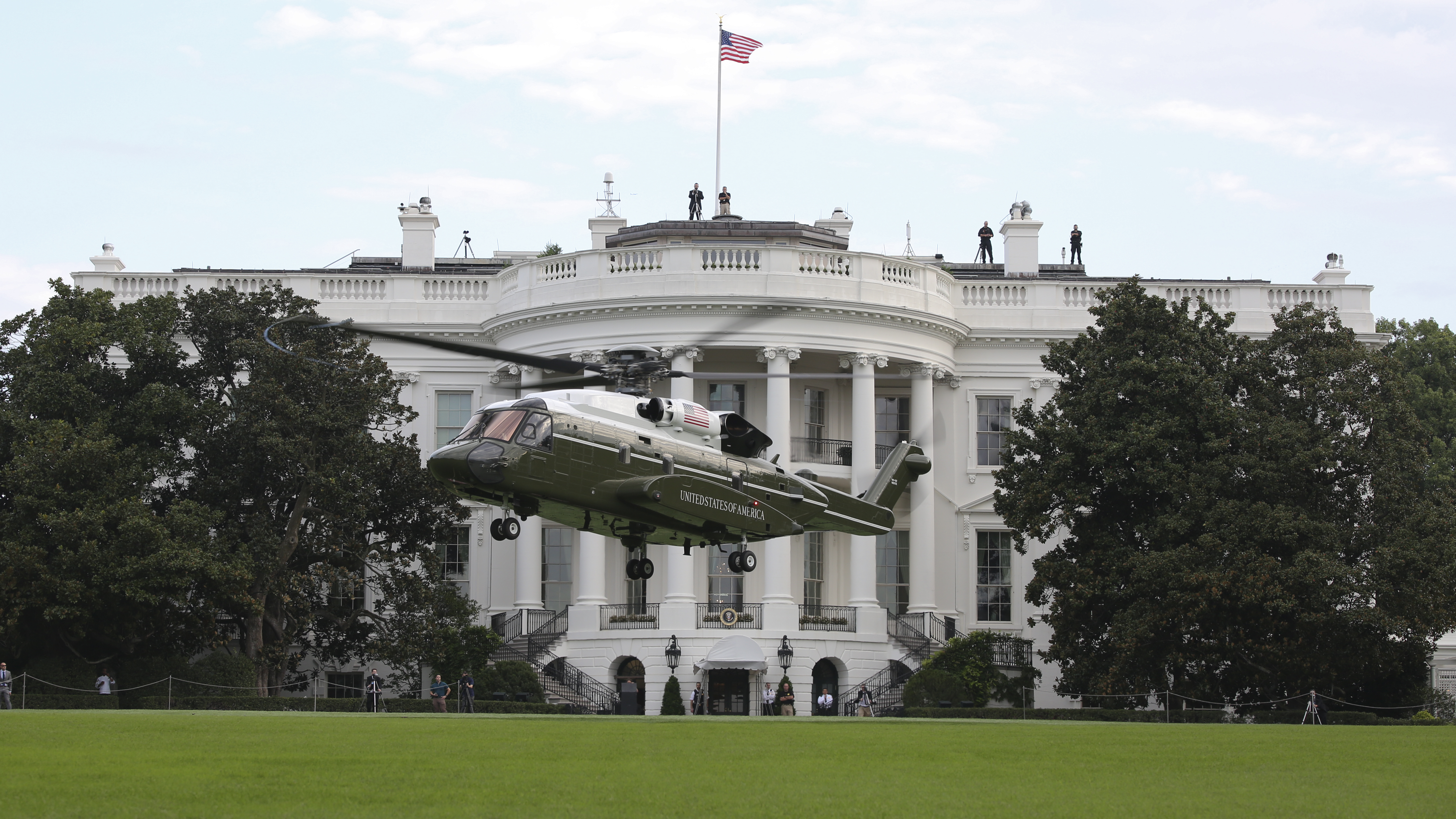 A developmental Sikorsky VH-92A helicopter conducts landing and take-off testing at the White House South Lawn, Washington D.C. (USA), on 22 September 2018. The aircraft was the first of six test aircraft developed under the Engineering and Manufacturing Development (EMD) phase, which included the design, certification and testing of a replacement helicopter to support the presidential world-wide vertical-lift mission. The landing and take-offs were part of a comprehensive test plan designed to ensure the aircraft meets all operational specifications.